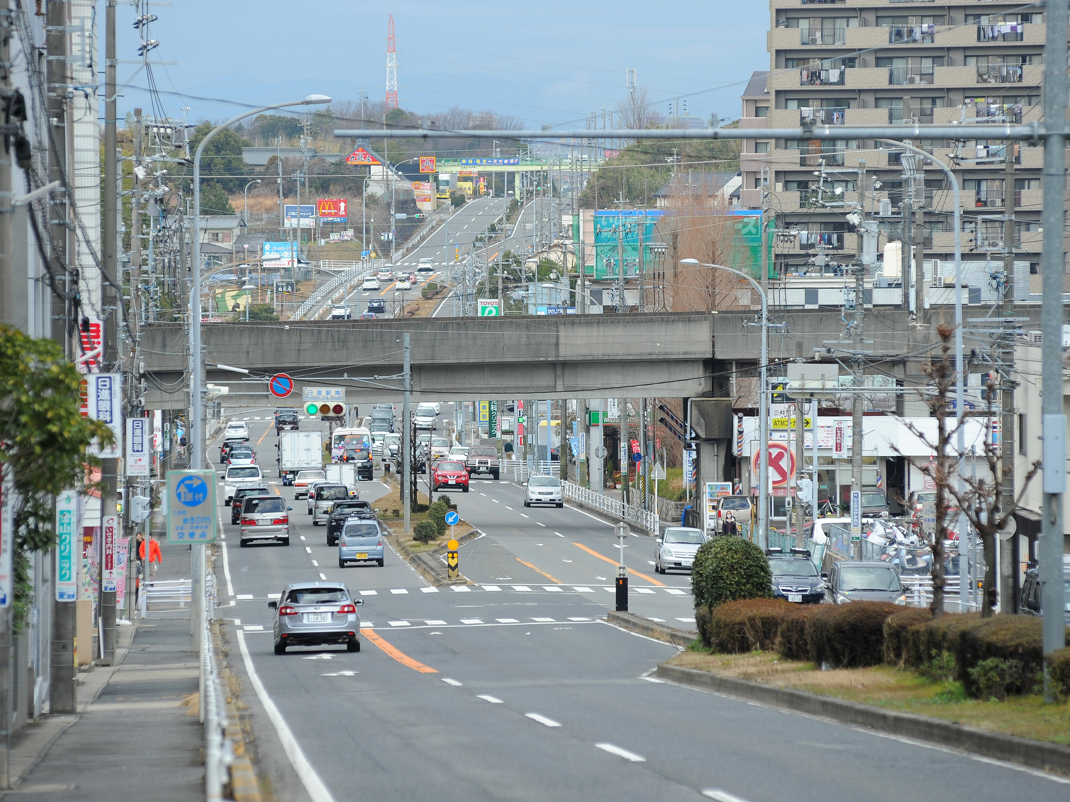 Aichi Prefectural Route 57, Nisshin, Aichi